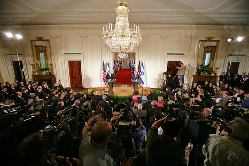 President George W. Bush and Prime Minister Ehud Olmert of Israel hold a joint press conference in the East Room Tuesday, May 23, 2006.